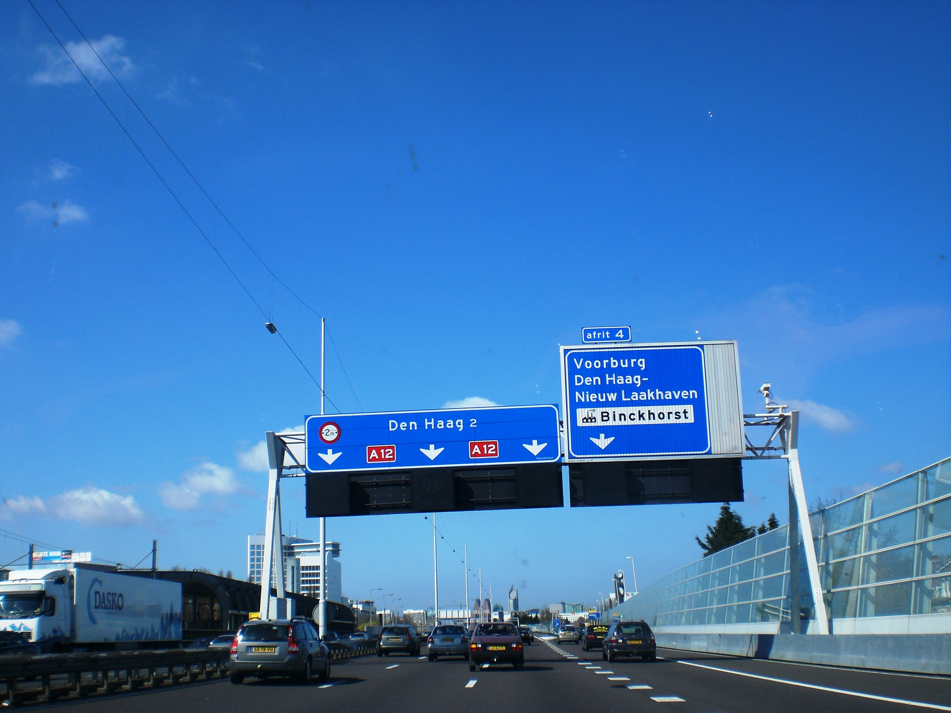 The A12-Motorway near Den Haag